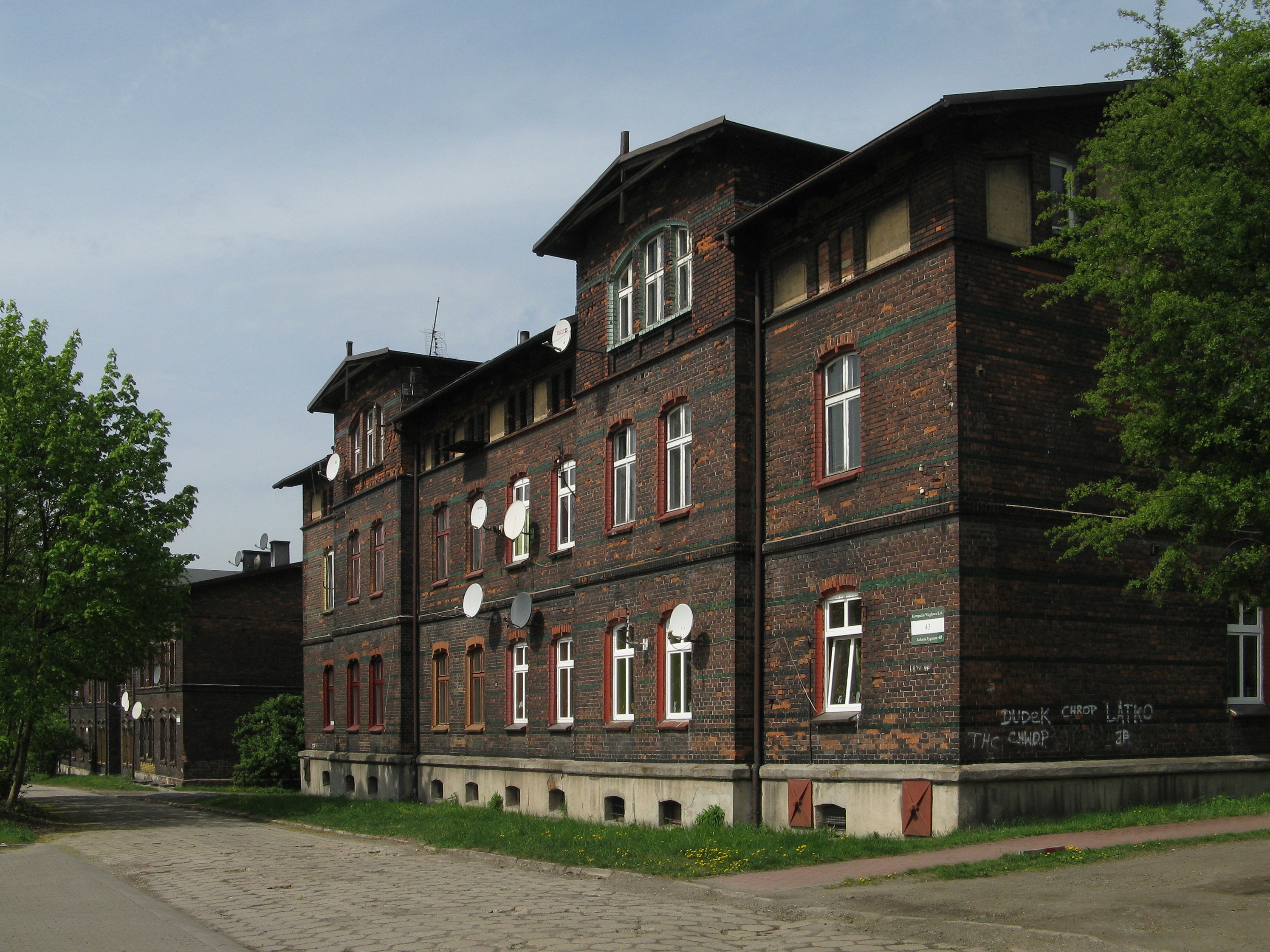 Buildings of the Kolonia Zygmunt in Bytom-Łagiewniki, Kolonia Zygmunt 43 street, Poland.